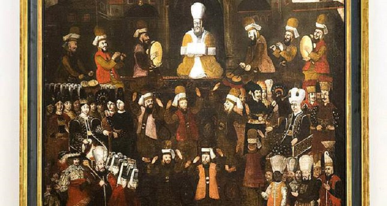 Osman II's accession to the Ottoman throne's festivities. The picture shows his mother Mahfiruz Hatice Sultan, sitting with her daughter Hanzade Sultan and her sister Şahincan Hatun.